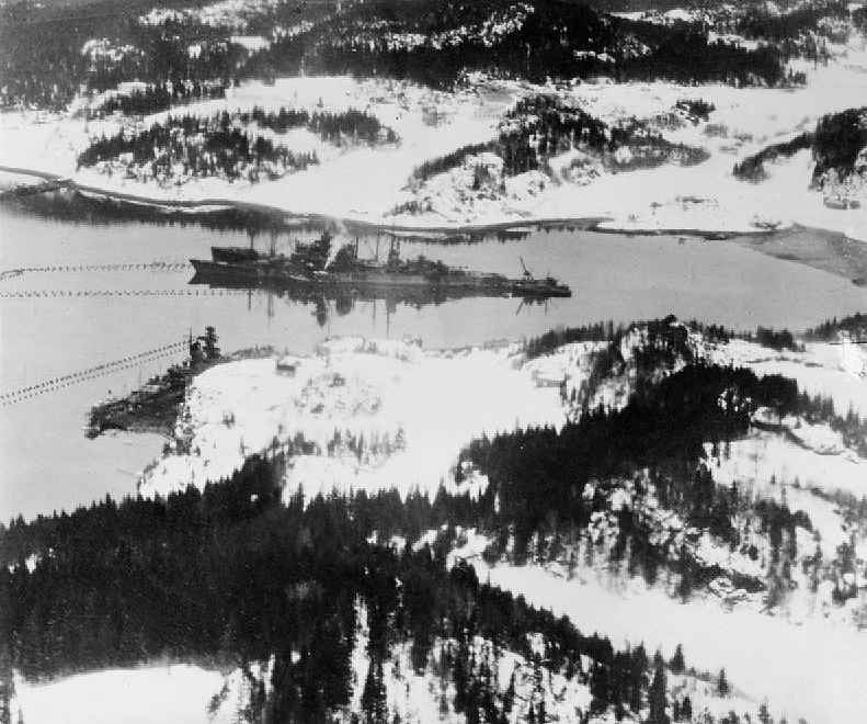 Oblique photographic-reconnaissance aerial of the German heavy cruisers Admiral Scheer and Prinz Eugen lying in Lofjord (Drontheim), Norway. Lying in the lee of a snow-covered bluff, nearest the camera, is Admiral Scheer, protected by a torpedo boom. In the middle of the fjord is Prinz Eugen, also protected by a boom, undergoing repairs to her stern and rudder after being seriously damaged by a torpedo fired by HMS Trident (N52) on 23 February 1942. She is attended by the repair vessel Huscaran, tugs and a sheer-legs platform aft, where some 9 m of her after section have been cut away.